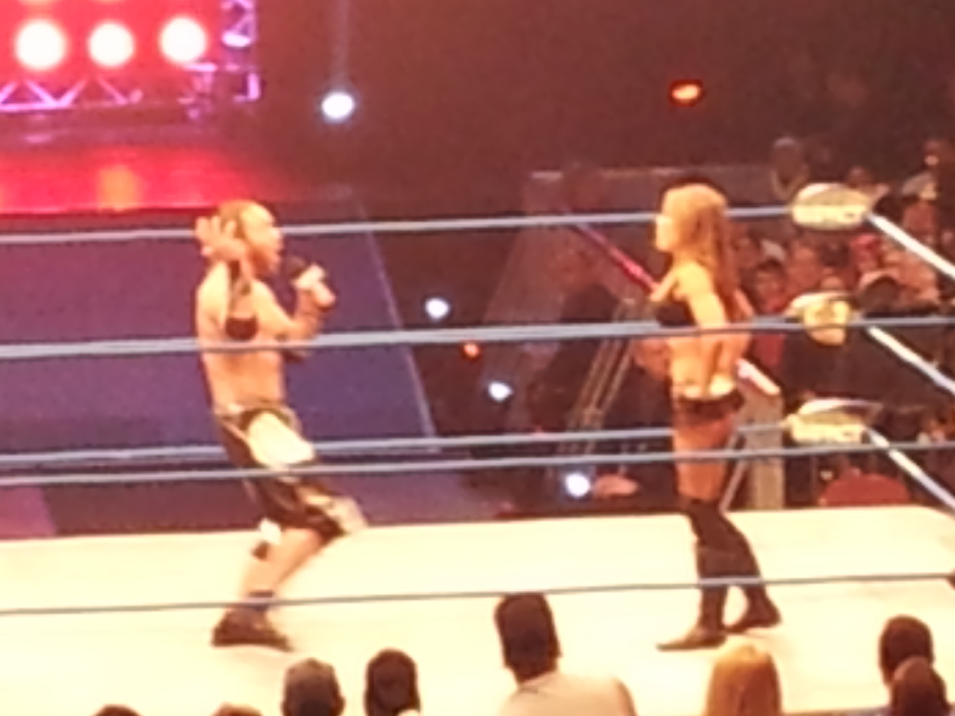 TNA Maximum Impact VI Tour – 31st January 2014 – Phones 4 U Arena, Manchester